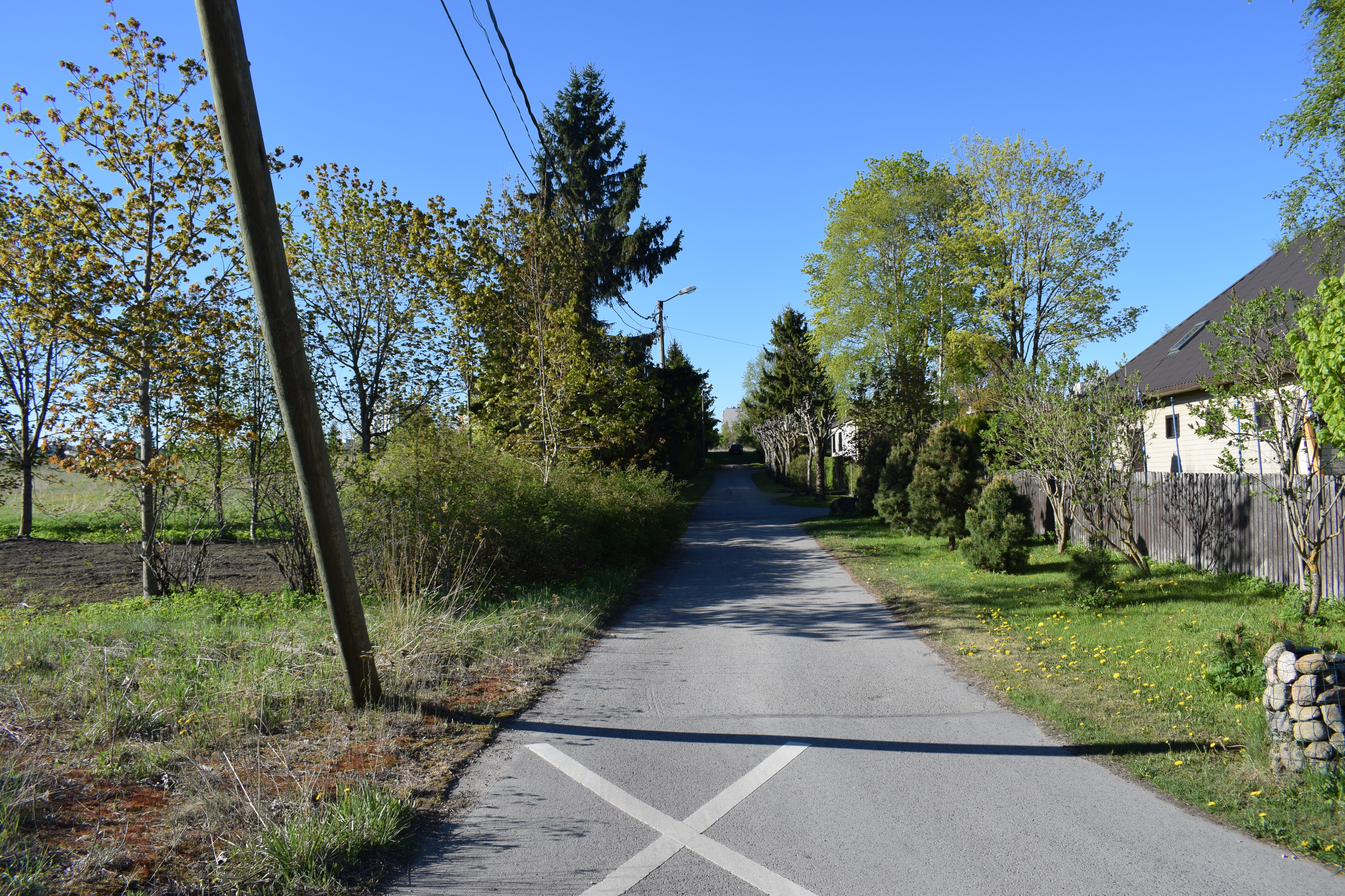 Kurereha street